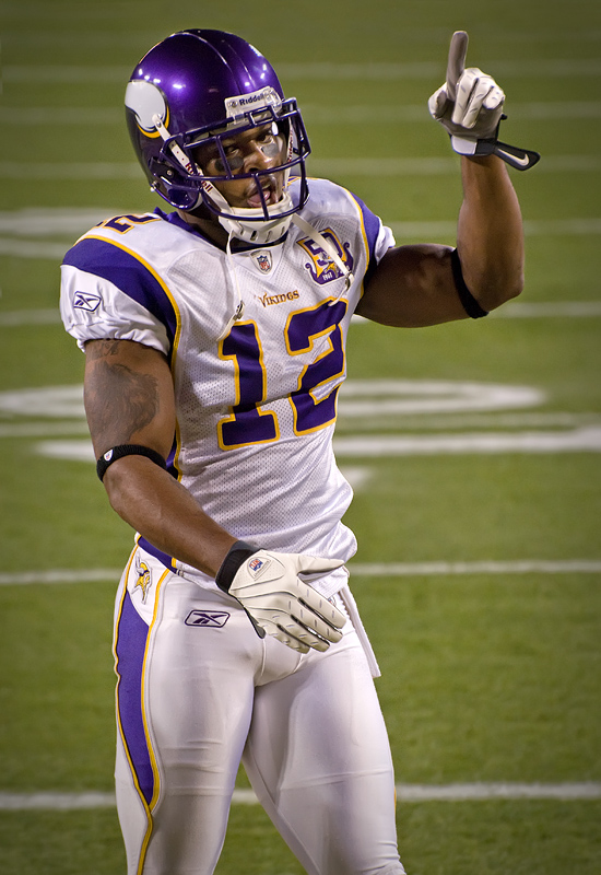 Lambeau Field, October 24, 2010. Photo by Mike Morbeck.